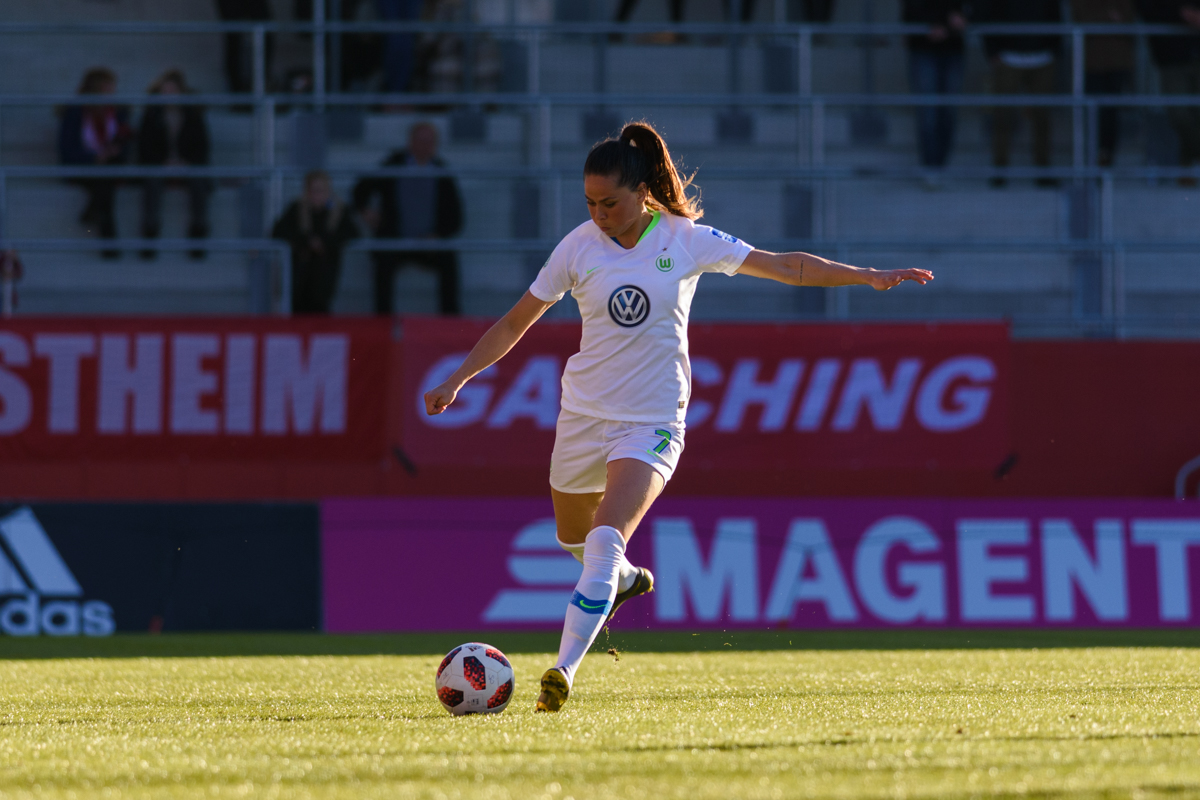 Sara Björk Gunnarsdóttir during the Bundesligamatch between FC Bayern and VfL Wolfsburg, 2018